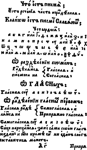 Original description: This page from the Church Slavonic Grammar (1619) by Meletius Smotrisky (R Мелетий Смотриский /m'el'et'ij smotr'isk'ij/) gives the Cyrillic alphabet in the semi-uncial style (R полуустав /poluustav/) as it was used in Eastern Europe (Muscovy, Ukraine, parts of Poland or "Rzecz Pospolita") at the time. Note how the ancient yuses, of which only the uniotated variants survive, are given as variants (или /il'i/ "or") of the non-nasal letters (ю /ju/, ꙗ /ja/). Meletius names the language he describes "Slavonic", indicating a deliberate attempt to standardise a common literary language for the Orthodox Slavs. As such, his attempt failed, for the vernacular East Slavic languages had already diverged. In Russia and Ukraine, however, the book was extremely influential, and served as a model for later grammarians (e.g. Lomonosov) who began, a century and a half later, to codify the vernacular, thus assisting in the creation of the literary. The name Slavonic-Russian (R славяно-русский /slav'ano russk'ij/) continued to be used for the common language of the Russian Empire as late as by Pushkin. See also Cyrillic Slavic languages Old Bulgarian (Church Slavonic) Church Slavonic language Old East Slavic Russian language Ukrainian language